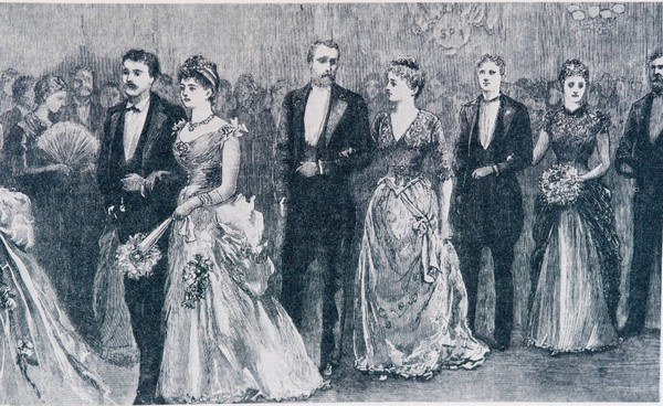 Concours de Beauté, the first Beauty pageant in the world, held at Spa in Belgium on 19 September 1888. The first prize of 5,000 francs went to 18-year old Bertha Soucaret, a Creole Girl from Guadeloupe.